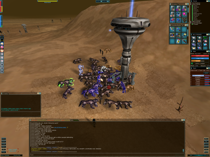 An in-game screenshot of a player-versus-player battle at a "land control area" from the video game Anarchy Online. The game's graphical user interface lines the periphery of the image.